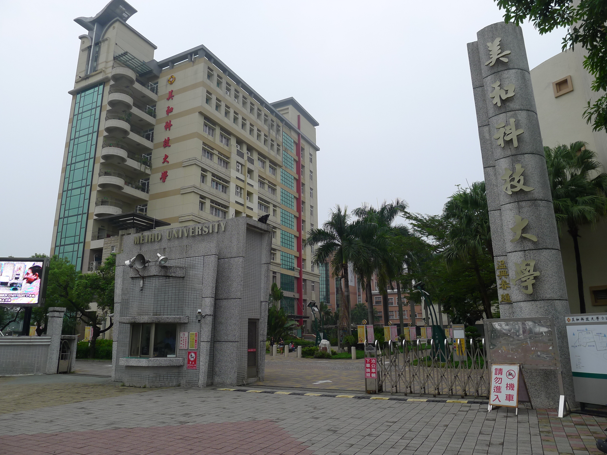 Main entrance to the campus of Meiho University.